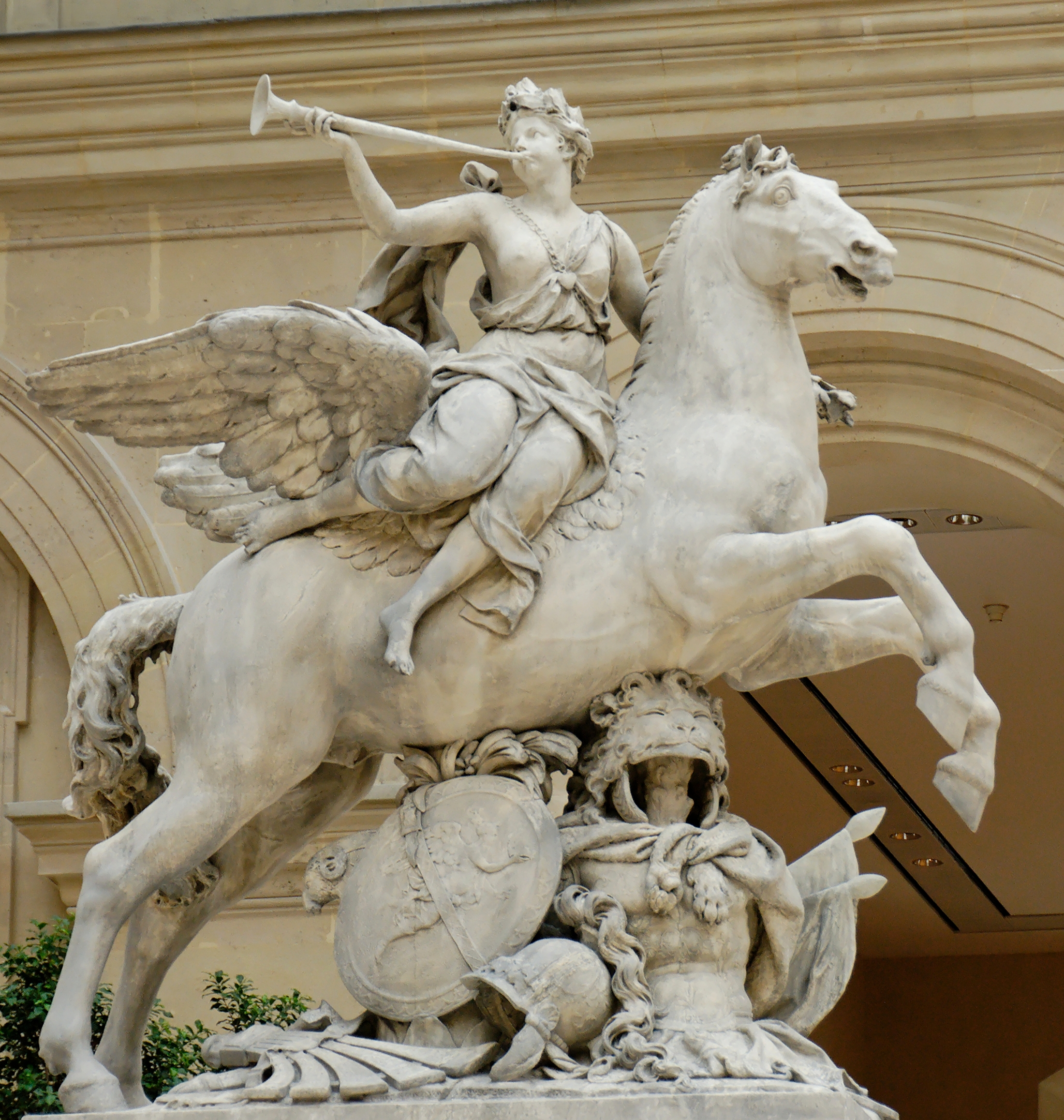 The King's fame riding Pegasus. Carrara marble, 1701-1702. Commissioned in 1699 for the decoration of the park of Marly, transfered in 1719 to the entrance to the Tuileries Gardens, replaced in 1986 by copies.